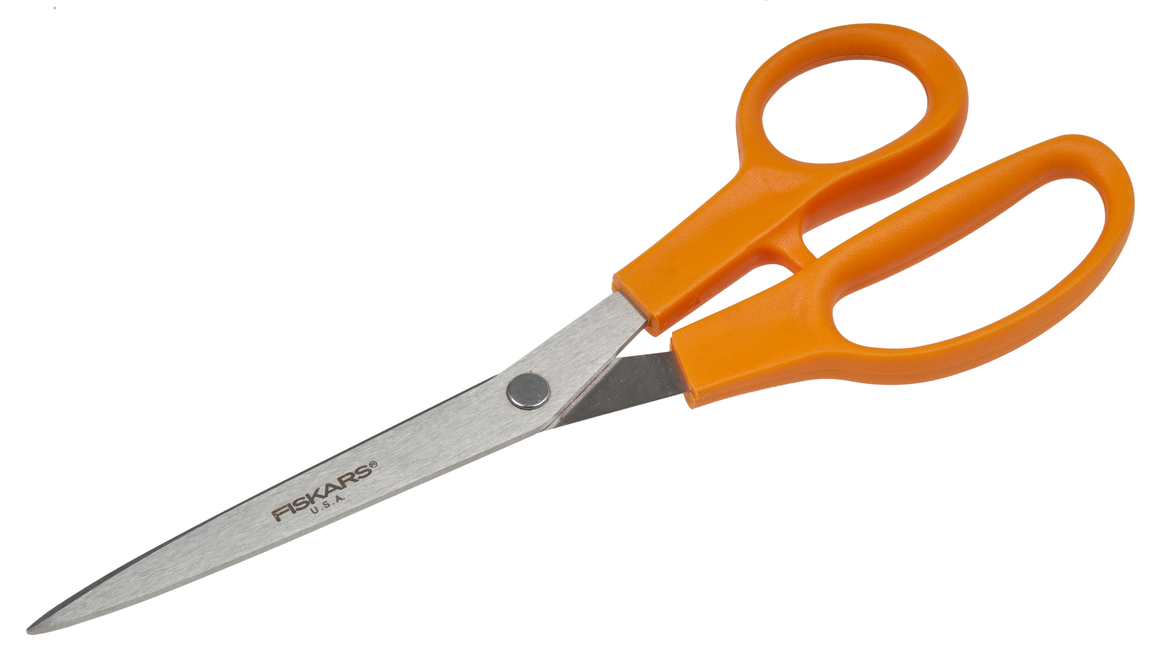 A pair of large, Fiskars-brand scissors.